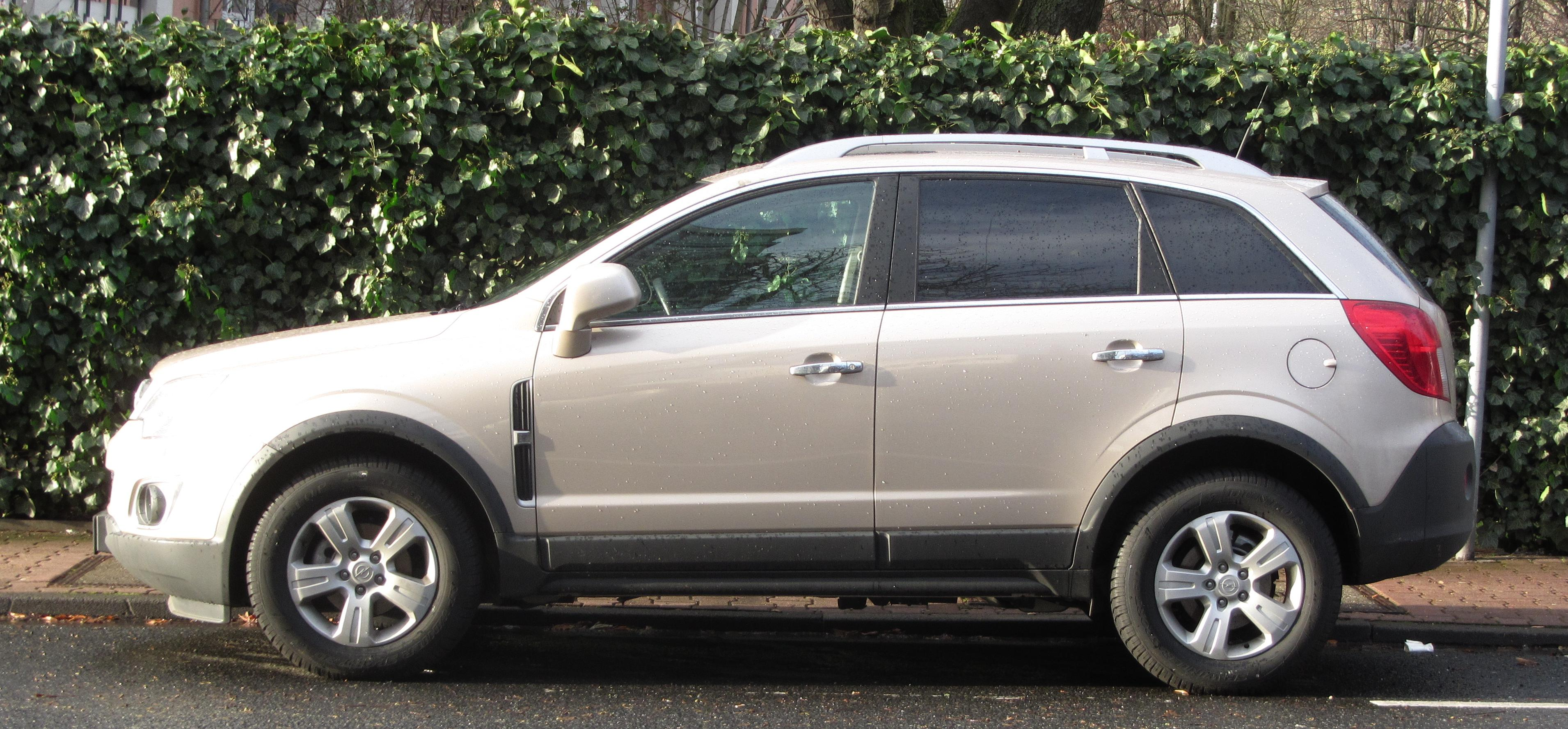 Opel Antara, white, side view